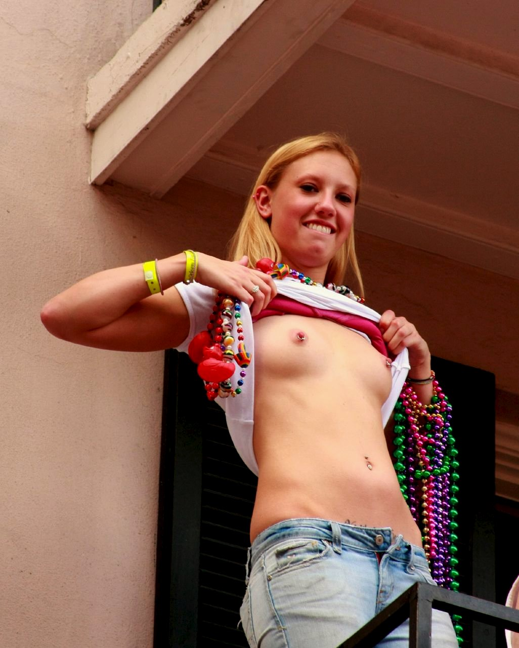 Young woman standing on a balcony, lifting her shirt to expose her bare breasts, at New Orleans Mardi Gras 2008.